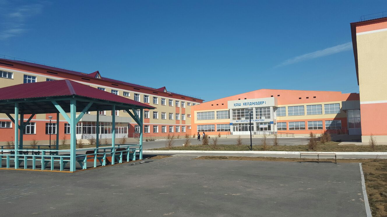 Qorabuloq